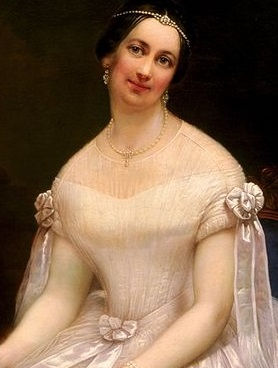 Julia Tyler was the First Lady of the United States. She was the second wife of President John Tyler